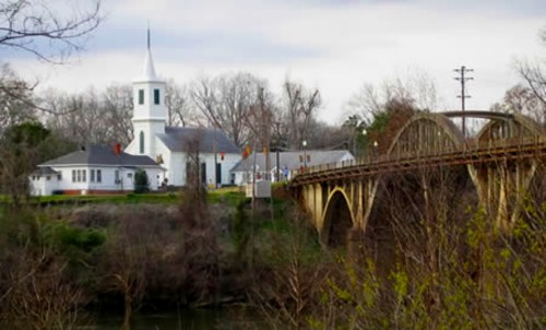 Photo of Bibb Graves Bridge and First Presbyterian Church, Wetumpka, Alabama.